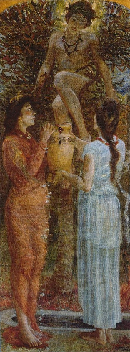 "Paradise Under the Sea" (わだつみのいろこの宮, Wadatsumi no Iroko no Miya), 1907